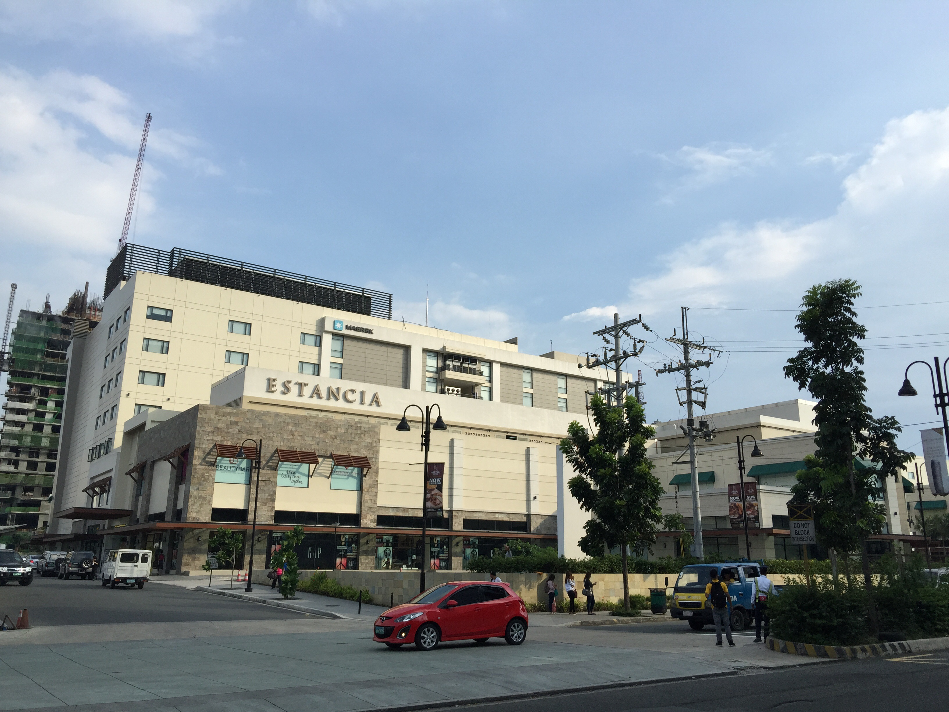 Estancia Mall at Capitol Commons in Pasig, Metro Manila, Philippines